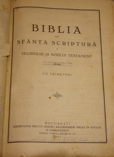 Title page of the 1931 Cornilescu Bible